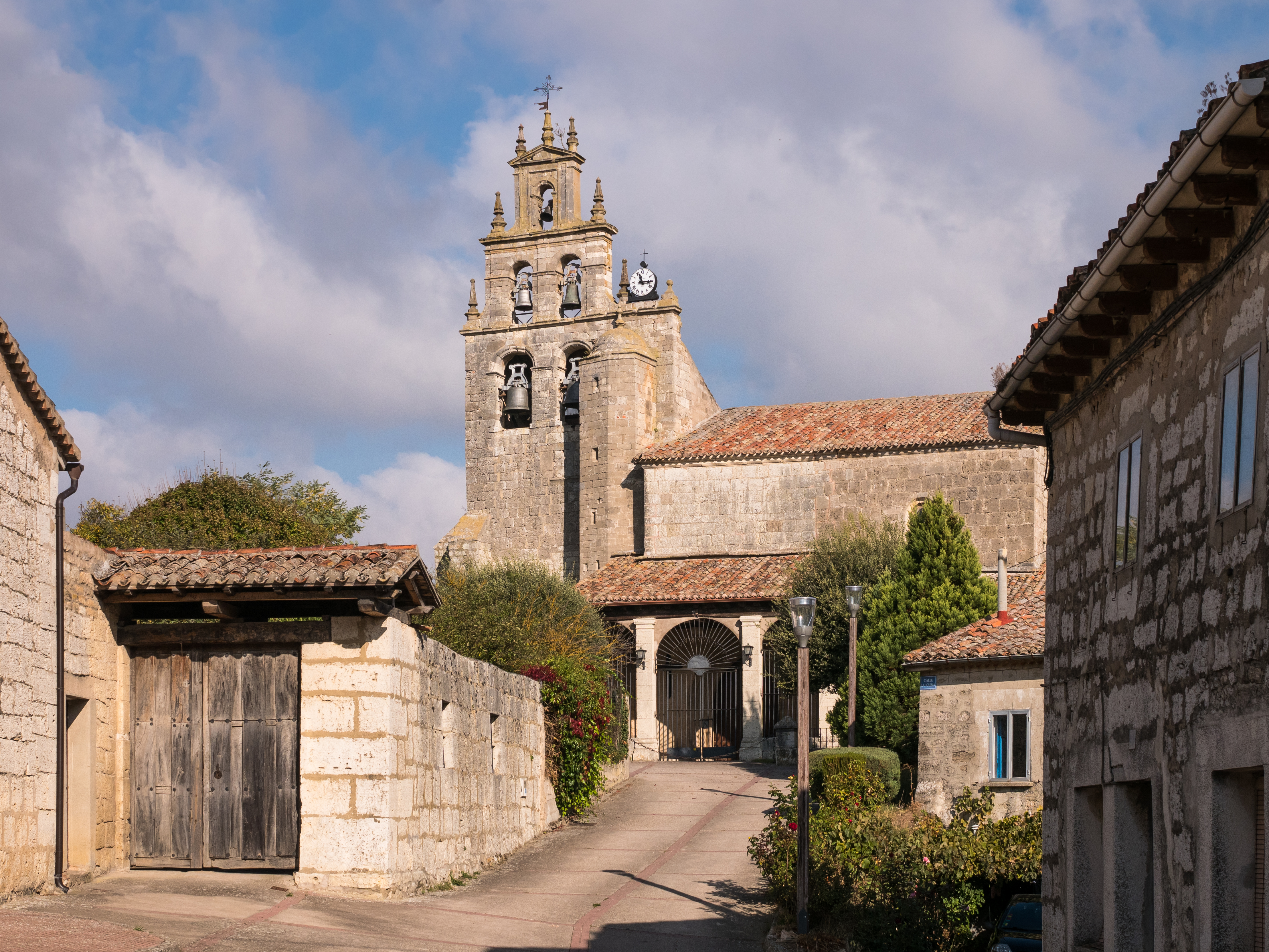 Church of Rubena. Burgos, Castilla-León, Spain